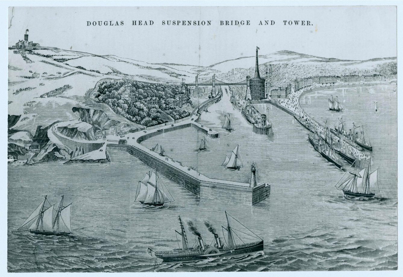 Douglas Head Suspension Bridge and Tower